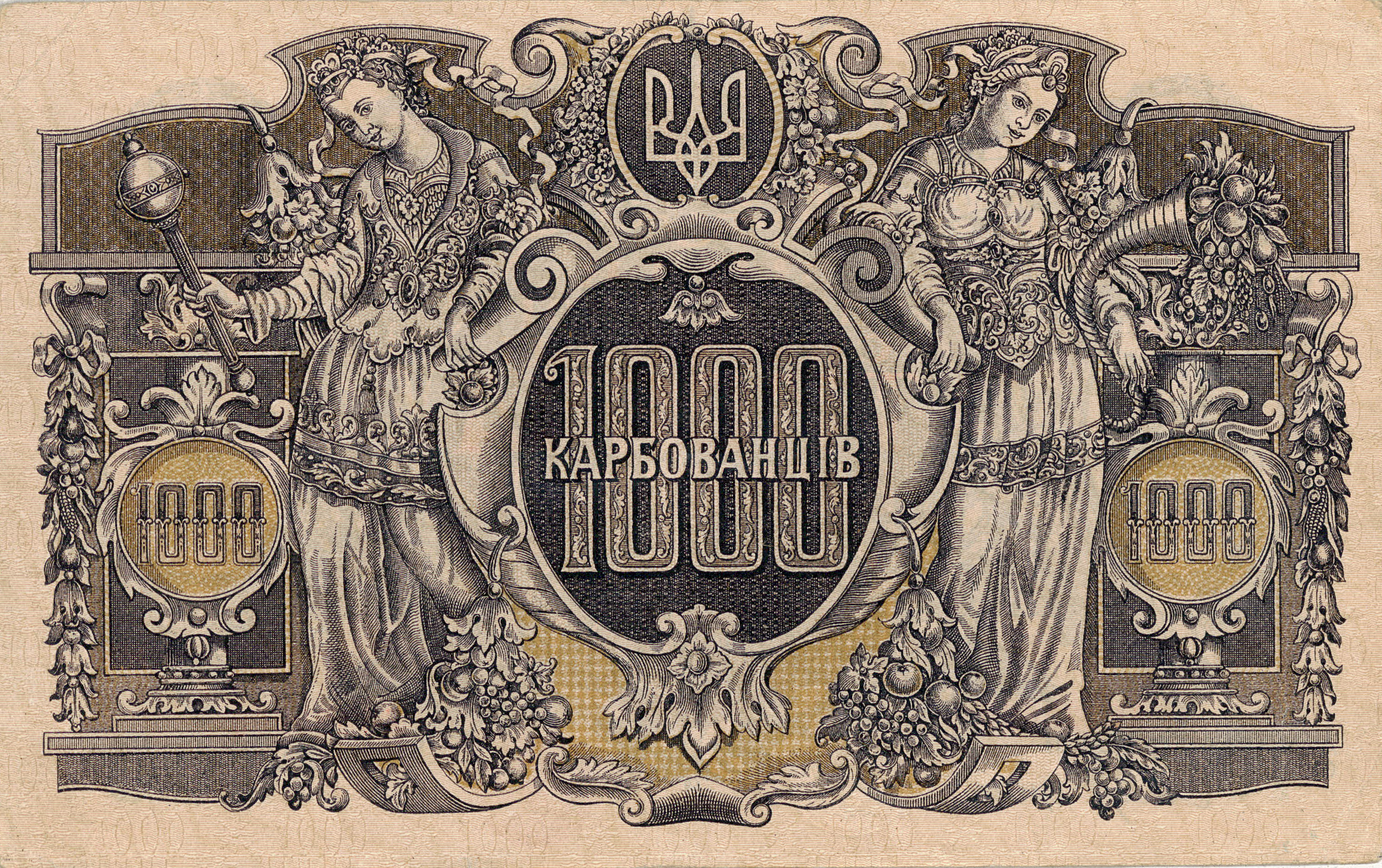 Ukrainian banknote of 1000 karbovanets from 1919